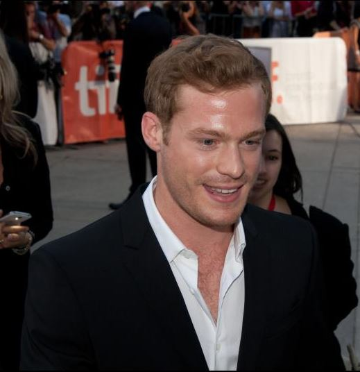 Actor Sam Reid at the 2013 Toronto International Film Festival